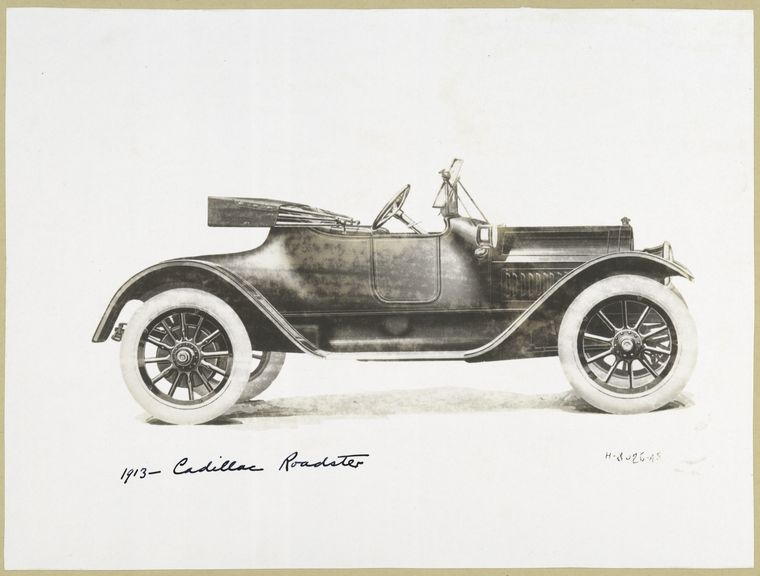 Cadillac 1913 Two-Passenger Roadster Digital ID: 482002 Source: Photographs of General Motors and Chrysler car and truck models, 1902 - 1938. / 1902-1938. Cadillac - Chrysler - De Soto - Dodge - LaSalle - Plymouth. Photographs - Specifications. (more info) Repository: The New York Public Library. Science, Industry and Business Library. General Collection Division. See more information about this image and others at NYPL Digital Gallery. Persistent URL: Rights Info: No known copyright restrictions; may be subject to third party rights (for more information, click here)